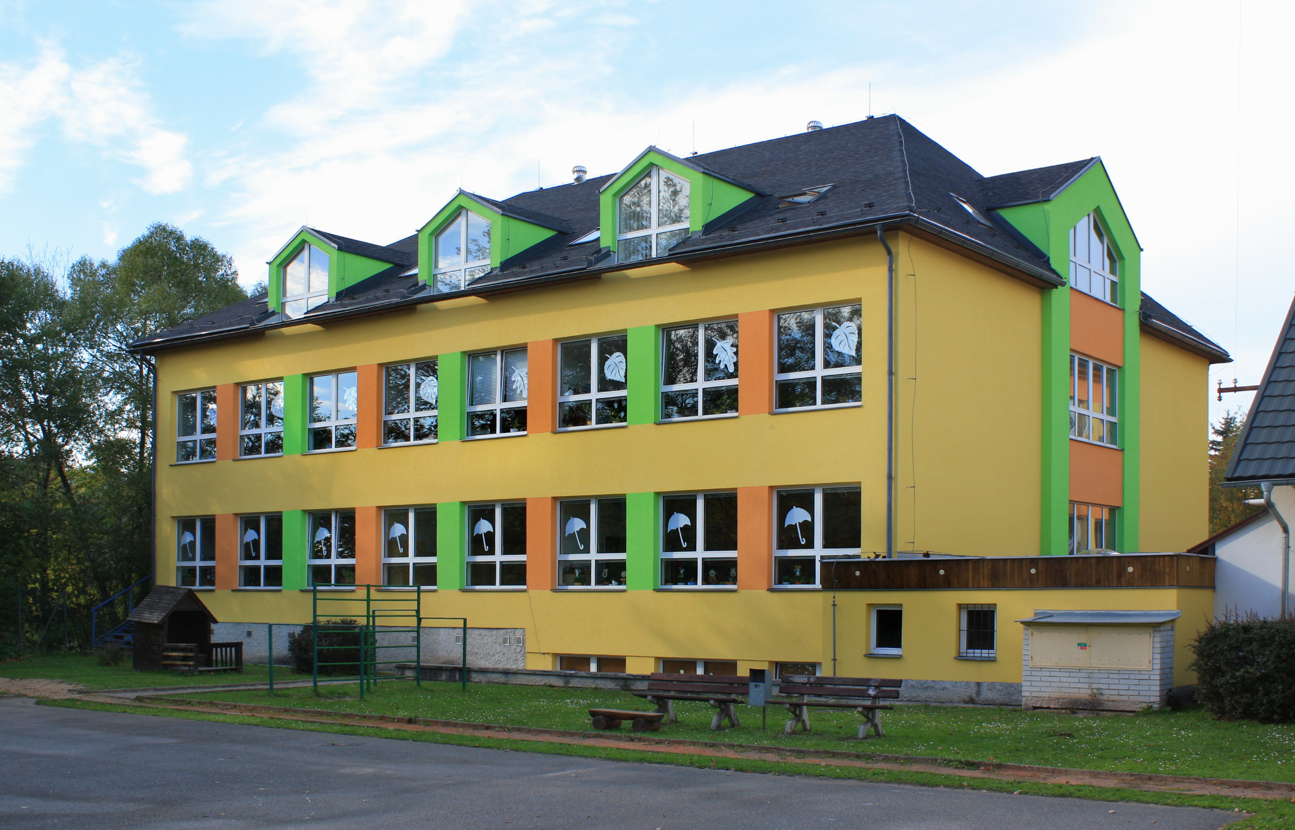 New school in Dolní Libchavy, part of Libchavy village, Czech Republic